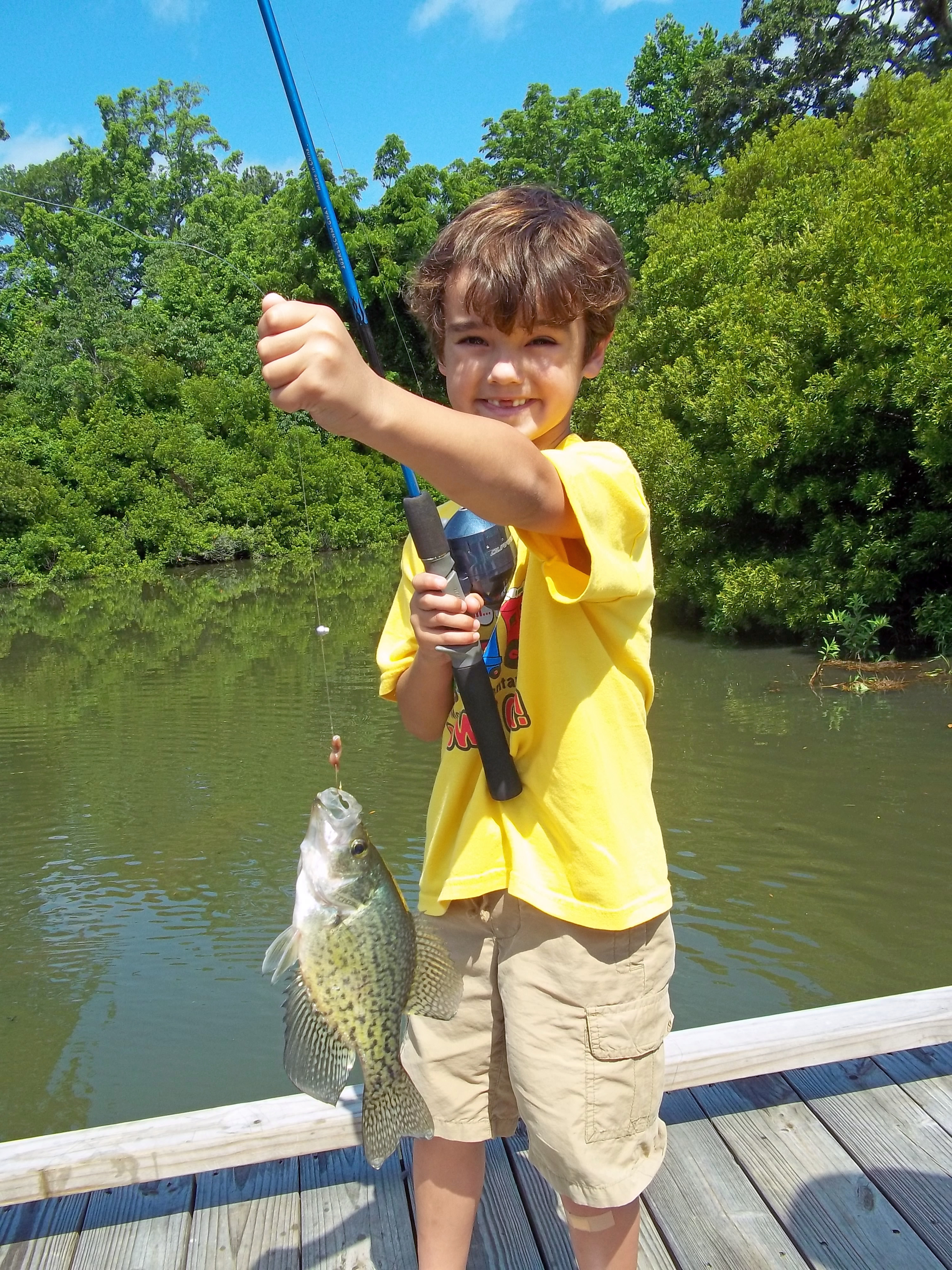 VSP YR. Nice Crappie. Fishing boy at York River State Park, Virginia, USA.